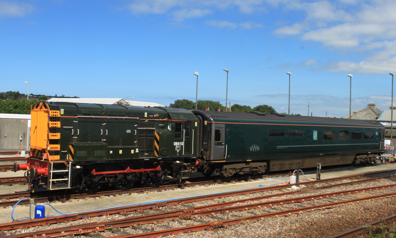 Penzance depot pilot engine 08410 stands in the carriage sidings at Long Rock with buffet car 10219 from the 'Night Riviera' train.